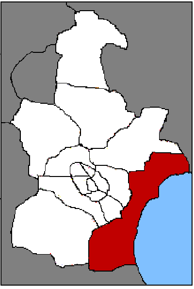 melting the 3 district of : Dagang district of Tianjin Tanggu district of Tianjin Hangu district of Tianjin since they have benn unified, as asked here